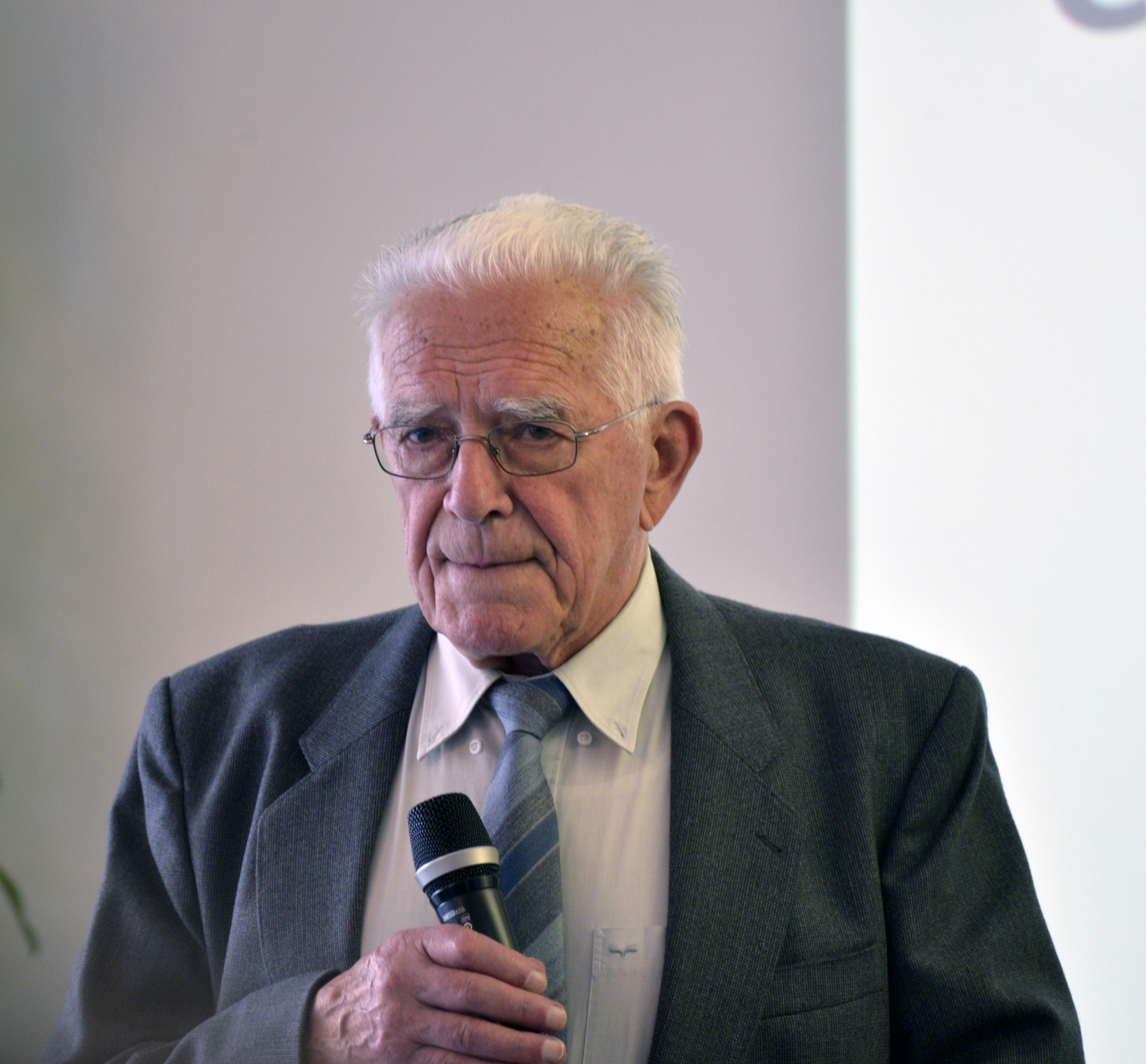 Josef Fanta during pricegiving ceremony of Josef Vavroušek prize for year 2014